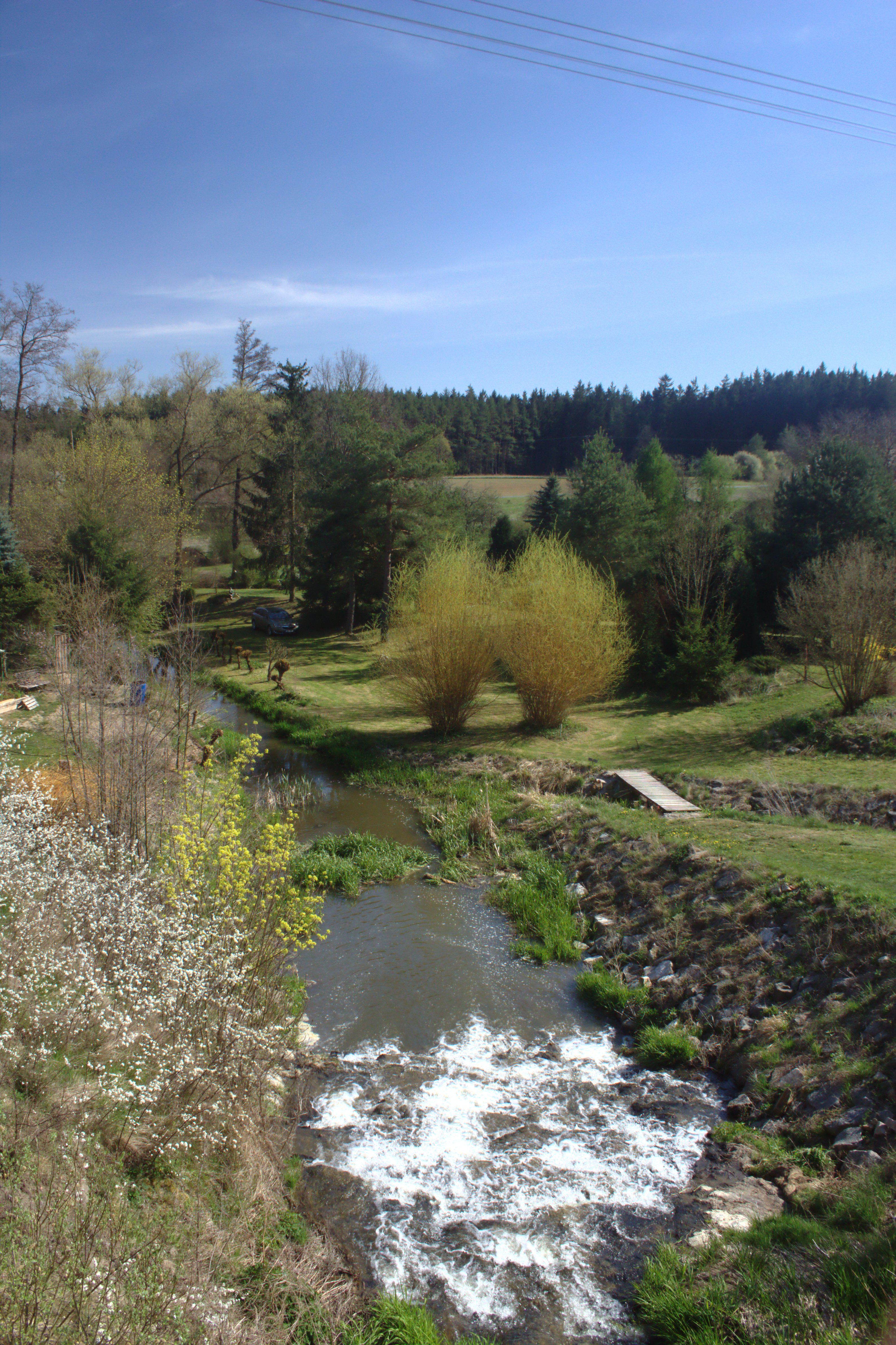 This photograph was created as a part of Wikiexpedition Mladá Vožice, a project supported by Wikimedia Foundation grant.